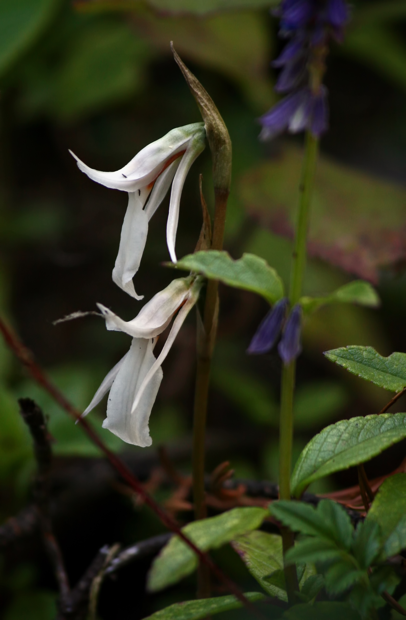 Funkiella hyemalis specimen found at monarch butterfly reserve, fir forest at Michoacan, Mexico.